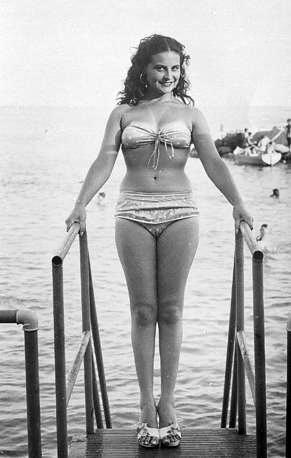 Angela Luce, italian actress, in bikini